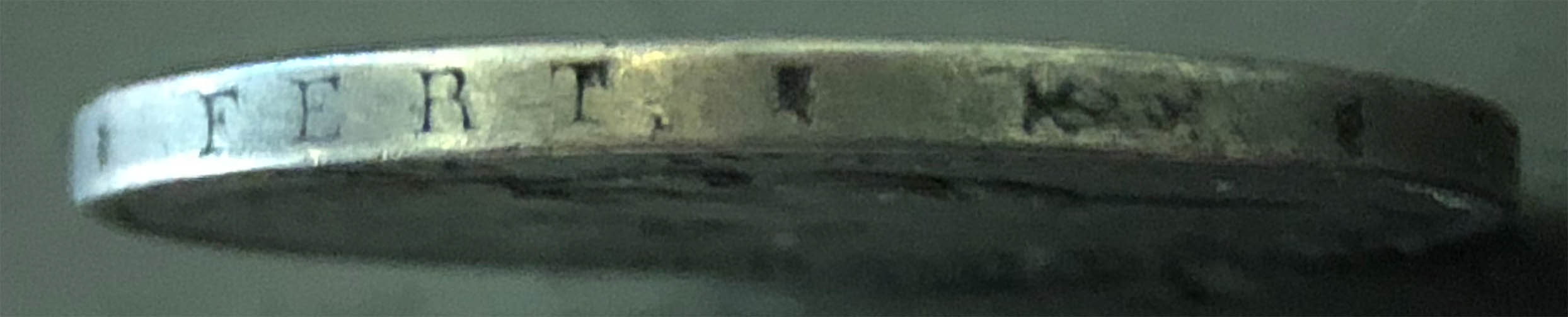 2 Lire 1887 Italy reverse. Coin from my collection, image was made by me personally